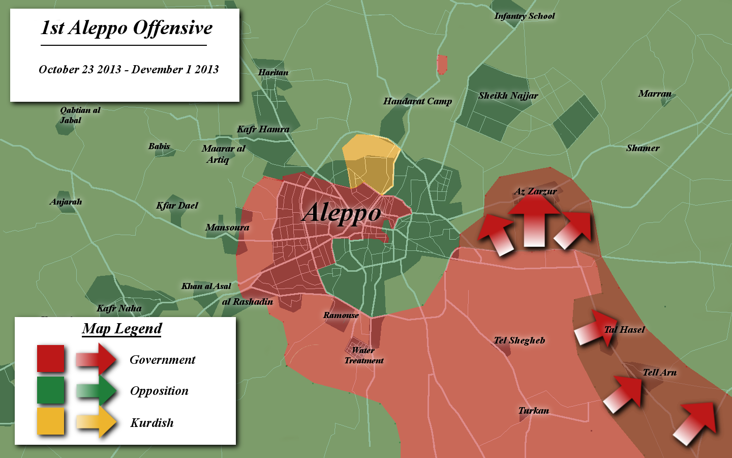 A simplified version of the 1st Aleppo Offensive (Operation Northern Storm). Created in gimp 2.8. Influenced by maps from creators: MrPenguin20, PetoLucem, and so on.